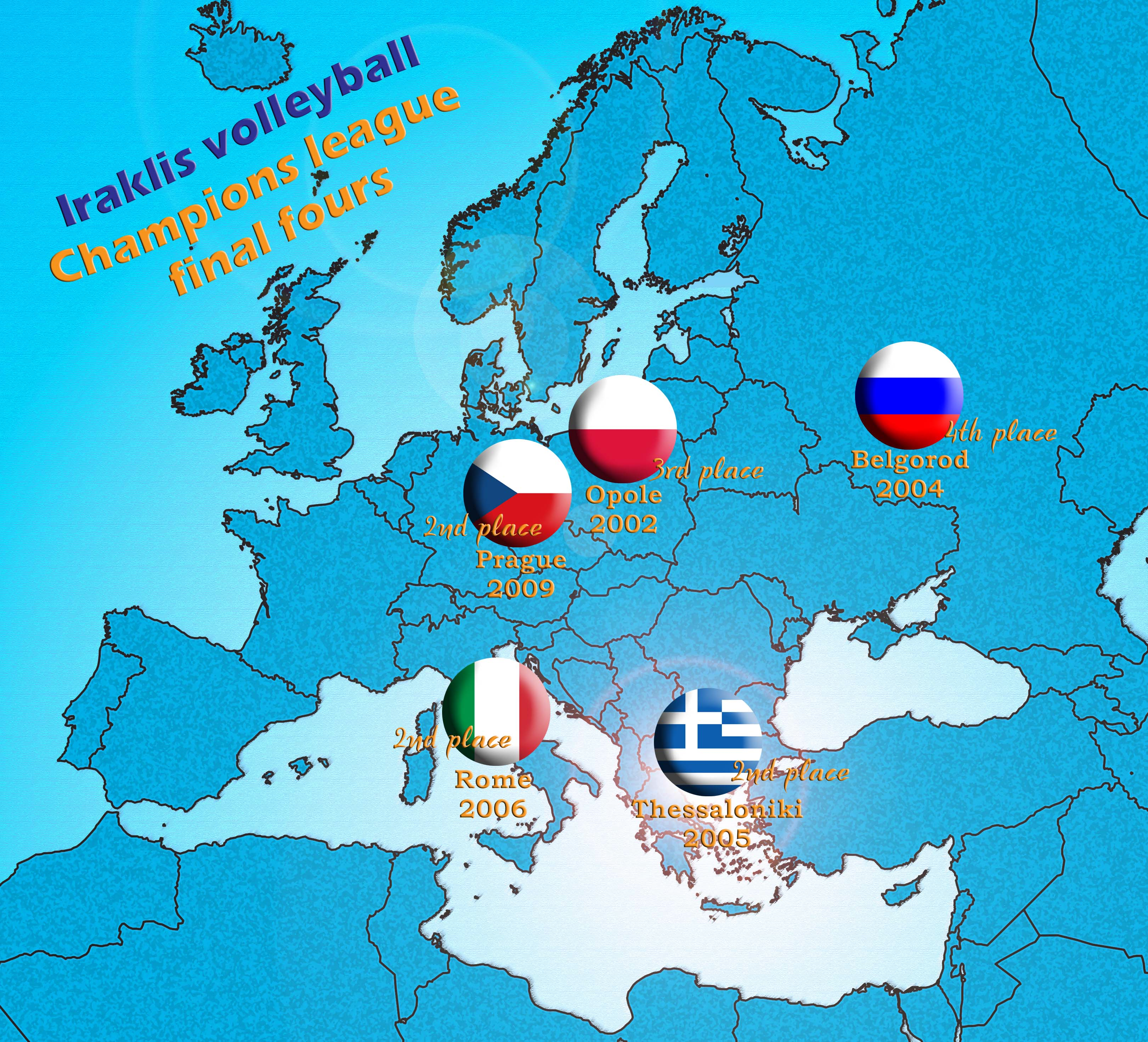 Iraklis volleyball european final fours map